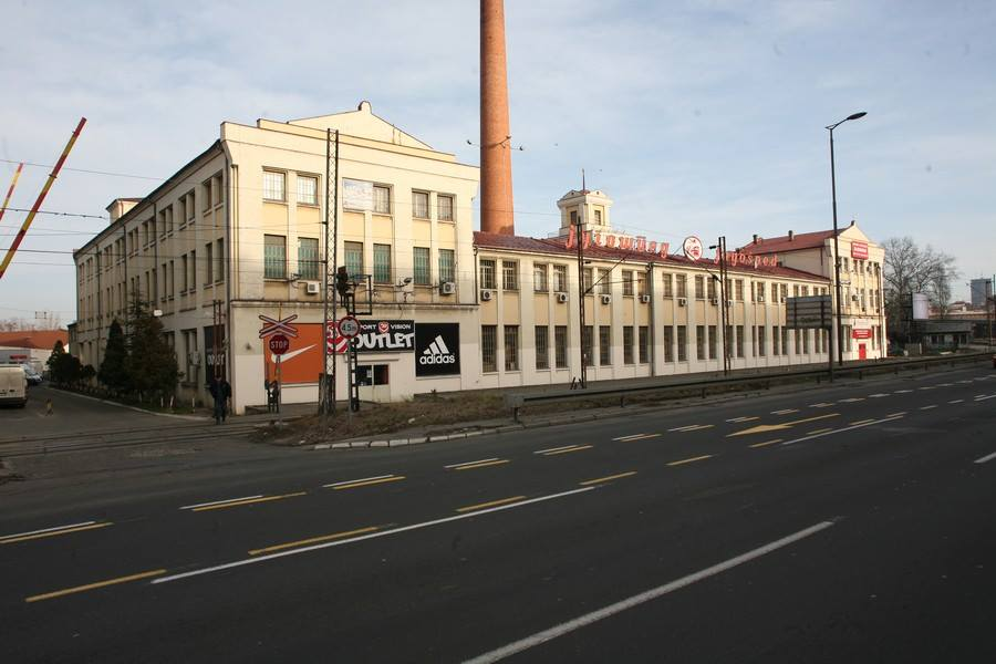 Factory Milan Vapa Srpski (latinica): Fabrika hartije Milana Vape